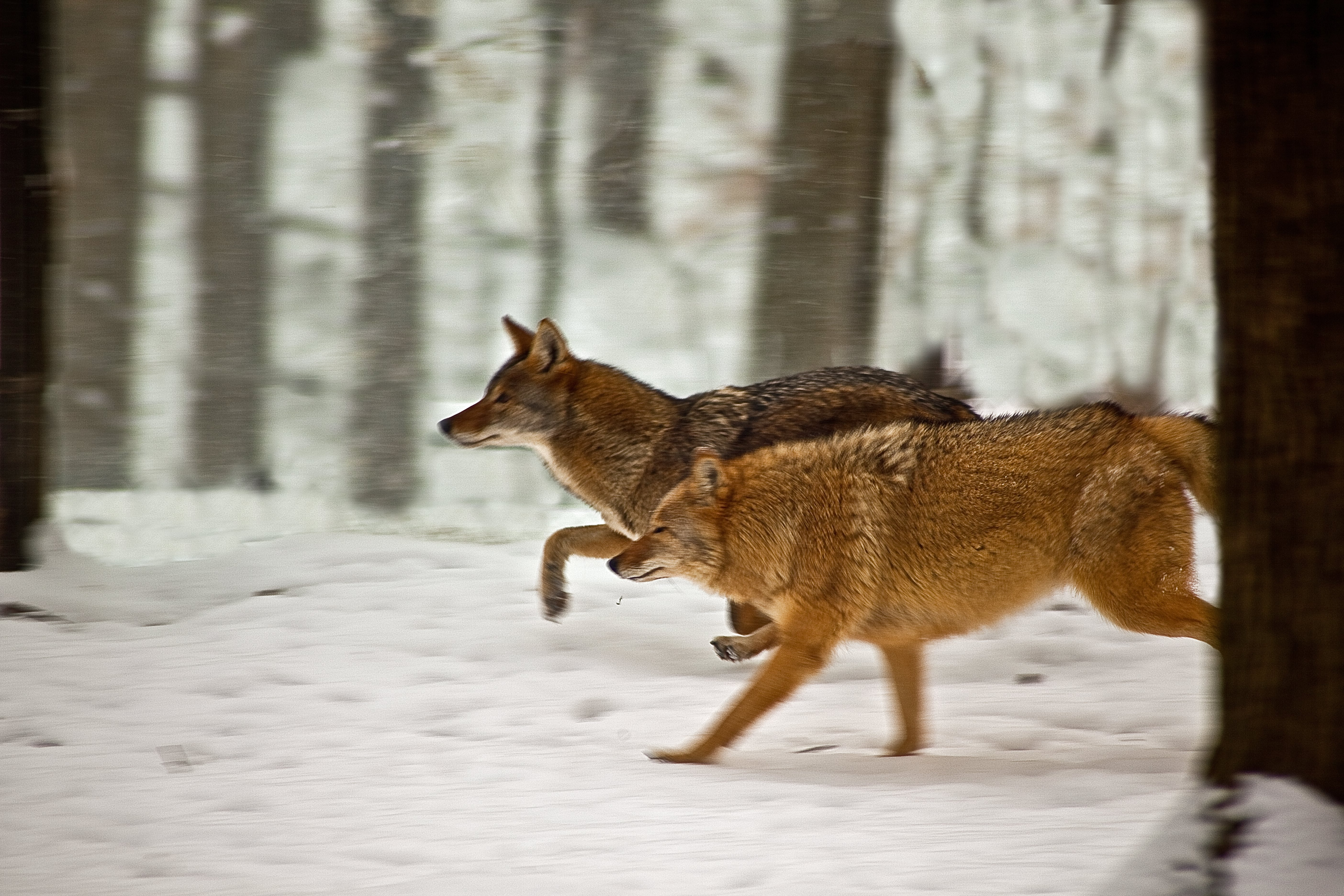 Coyotes Running Snow, West Virginia